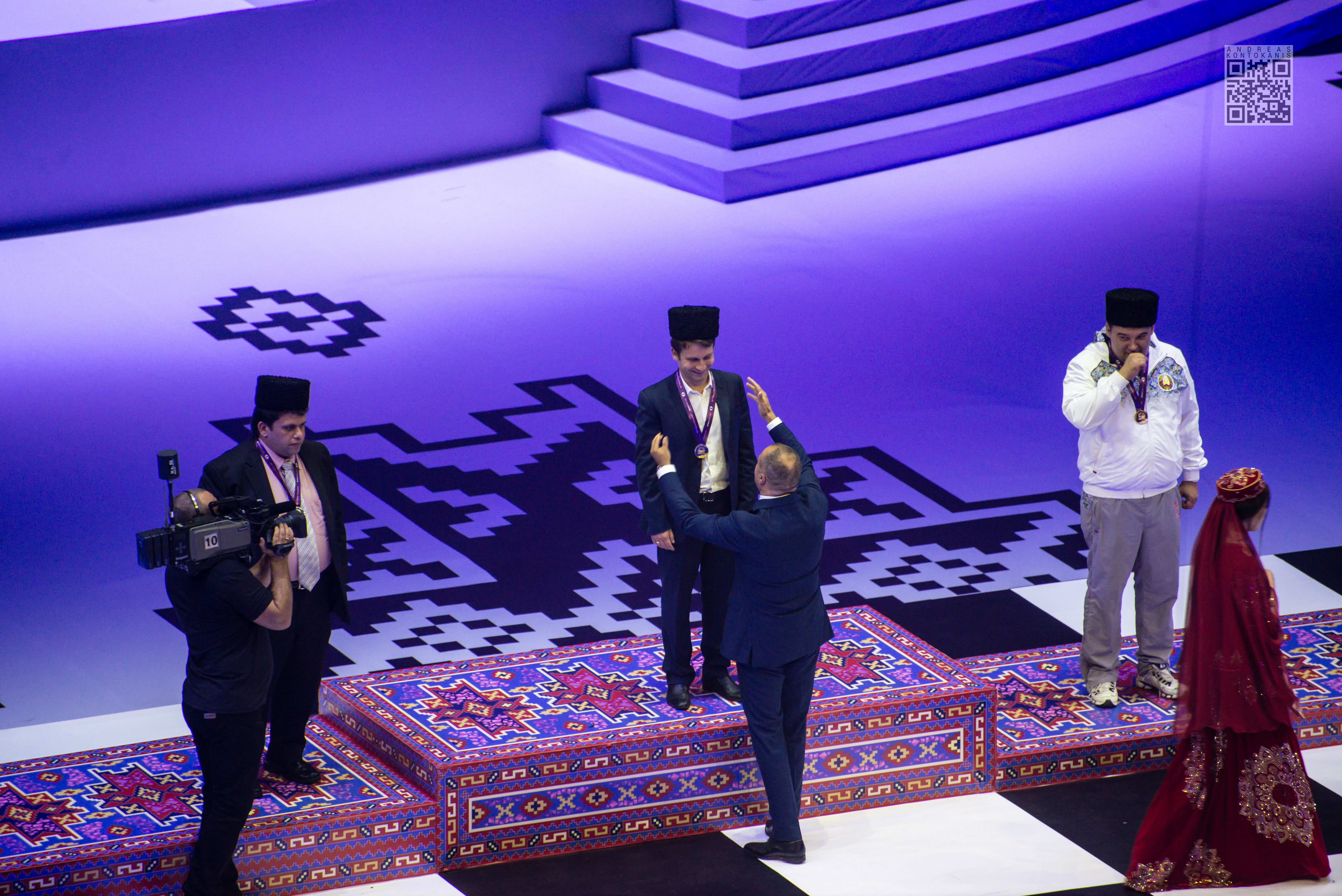 Andrei Volokitin takes his medal